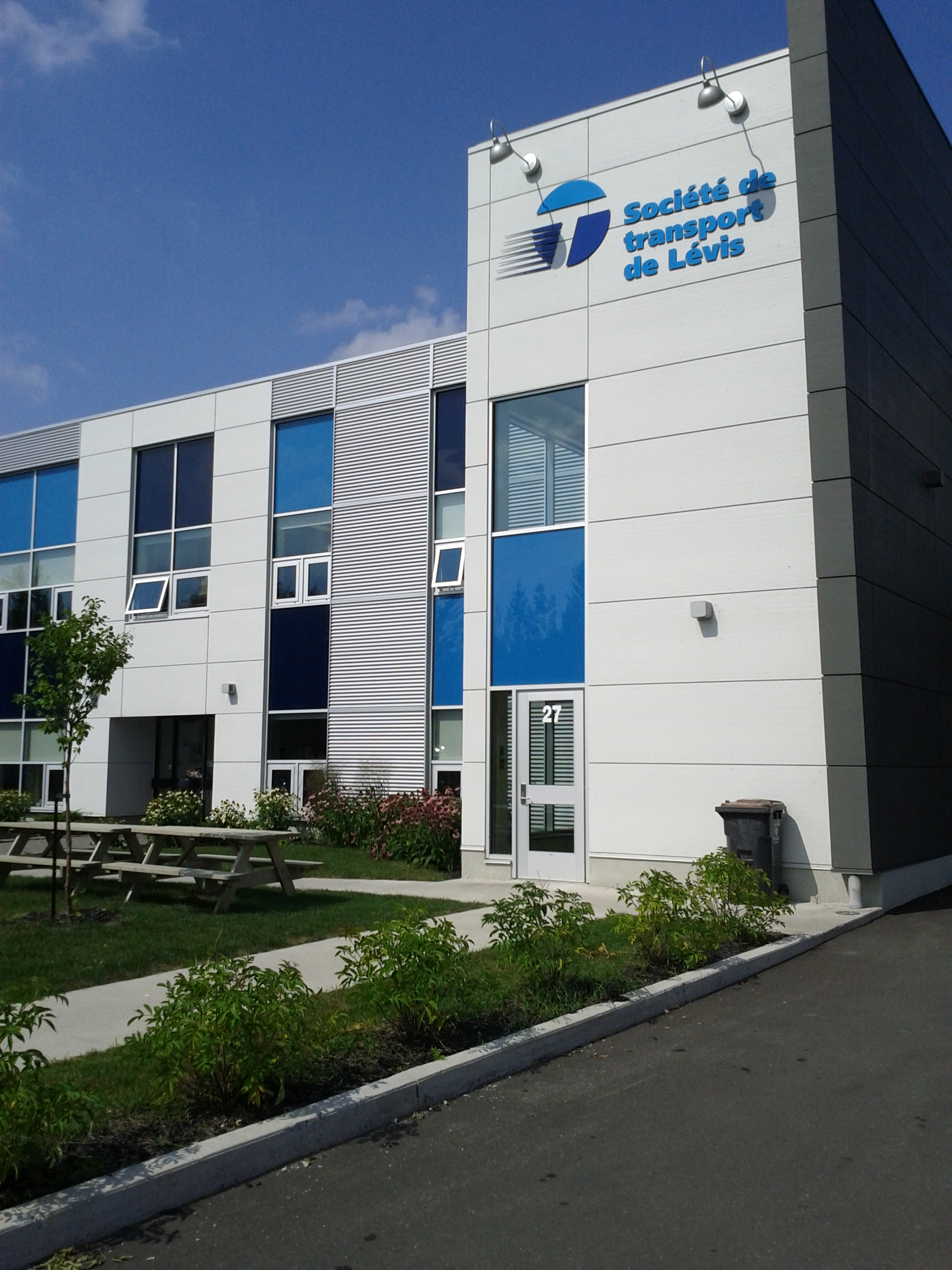 The Société de transport de Lévis headquarters, located on Saint-Omer Street, in Lévis, Quebec.